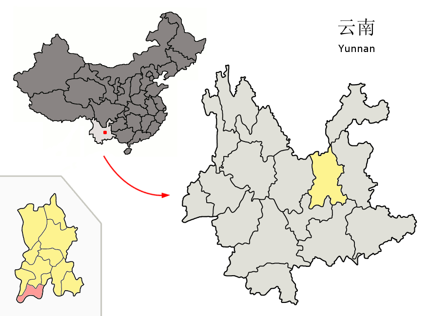 Location of Jinning County (pink) and Kunming prefecture (yellow) within Yunnan province of China Map drawn in september 2007 using various sources, mainly : Yunnan province administrative regions GIS data: 1:1M, County level, 1990 Yunnan Counties map from